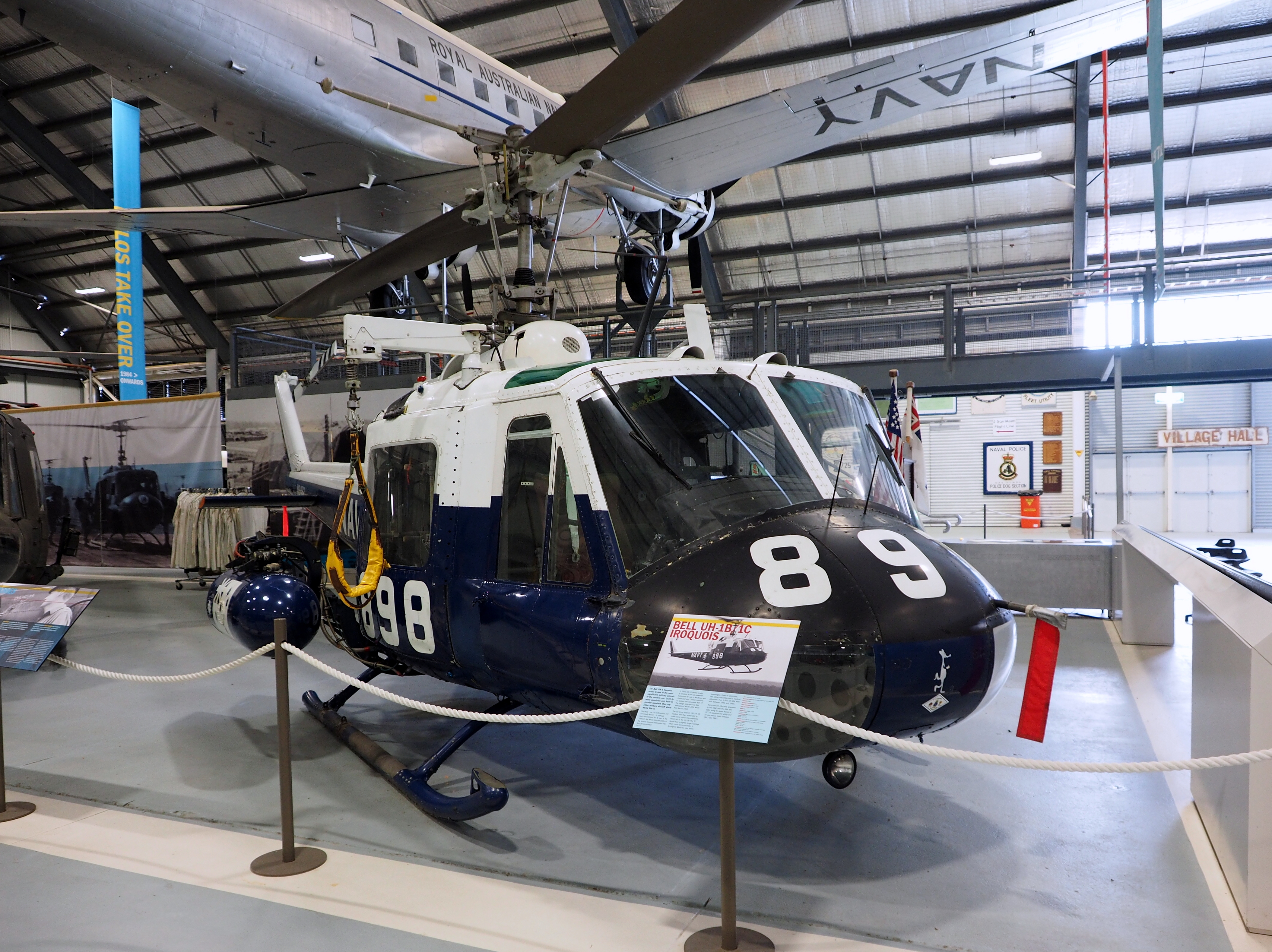 A former Royal Australian Navy Bell UH-1C Iroquois helicopter on display at the Fleet Air Arm Museum